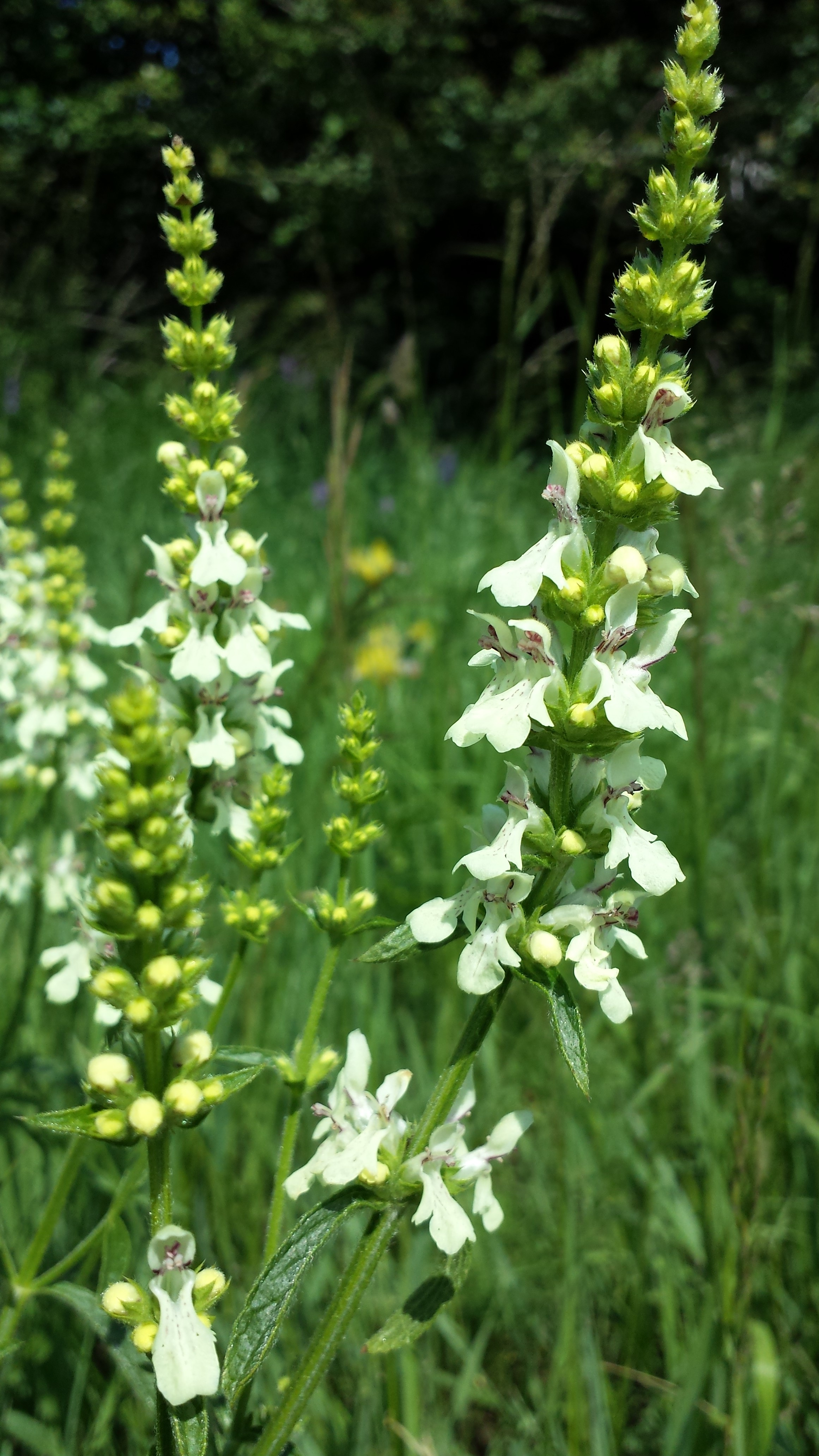 Florescence Taxon: Stachys recta (sensu Fischer et al. EfÖLS 2008 ISBN 978-3-85474-187-9) Location: Alte Schanzen, object XII, Floridsdorf, Vienna - ca. 225 m a.s.l. Habitat: dry grassland